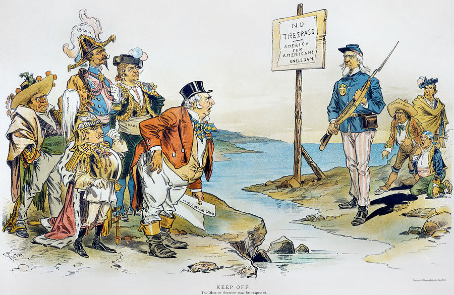 In Gillam's 1896 political cartoon, Uncle Sam stands with rifle between the outrageously dressed European figures and the native-dress-wearing representatives of Nicaragua and Venezuela. Information can be found at Library of Congress